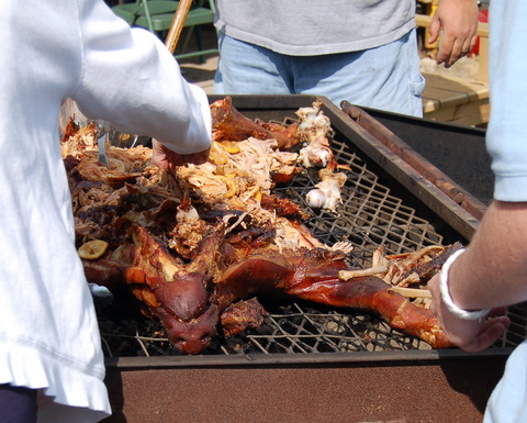 Barbecued pig.